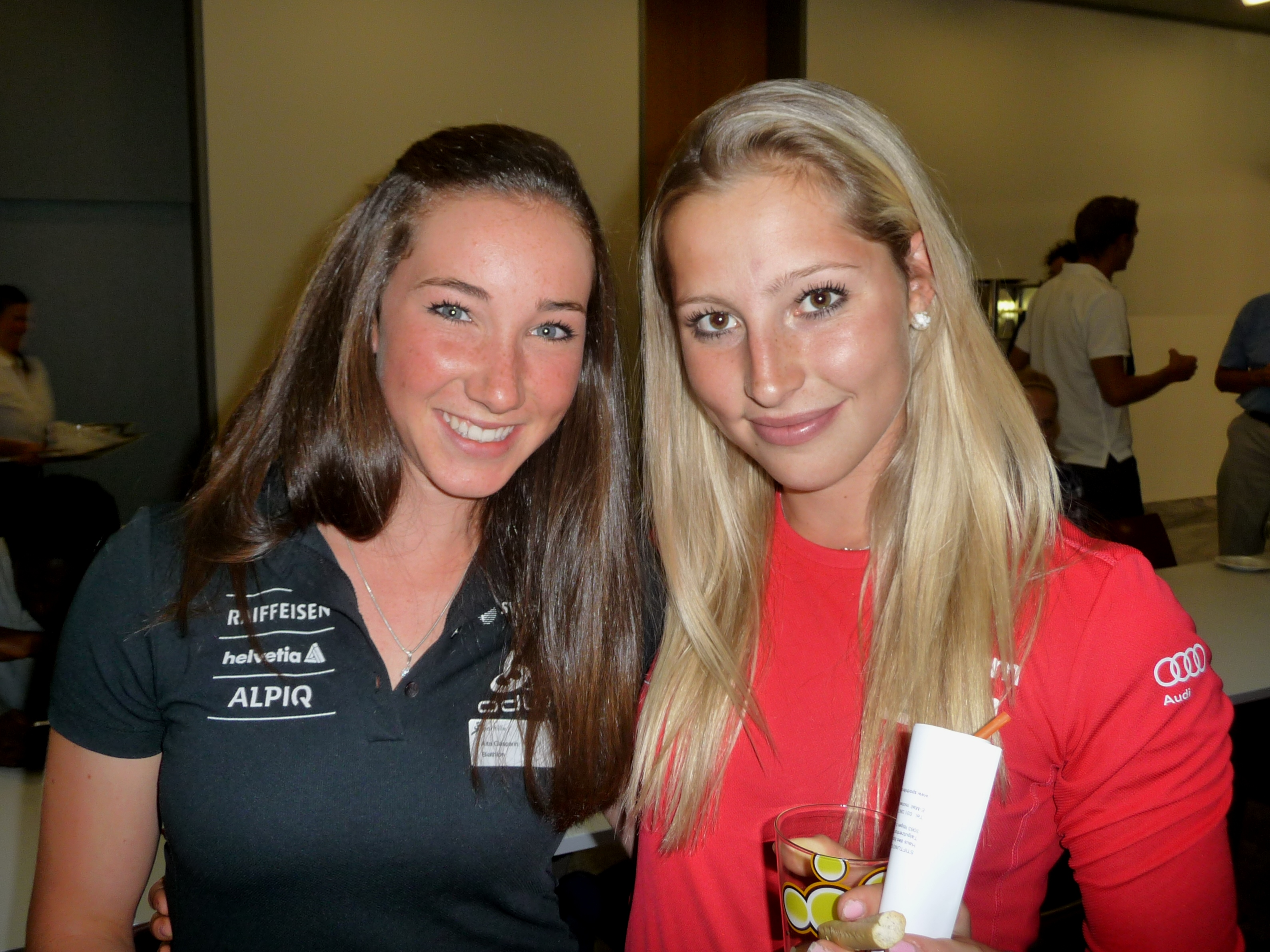 Swiss biathletes Aita Gasparin and Ladina Meier-Ruge at "rendez-vous" event in "Haus des Sports", Ittigen, Switzerland